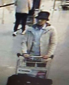 Suspects in the 2016 Brussels bombings filmed by a CCTV camera. Left to right: Najim Laachraoui, Ibrahim El Bakraoui and Mohamed Abrini.